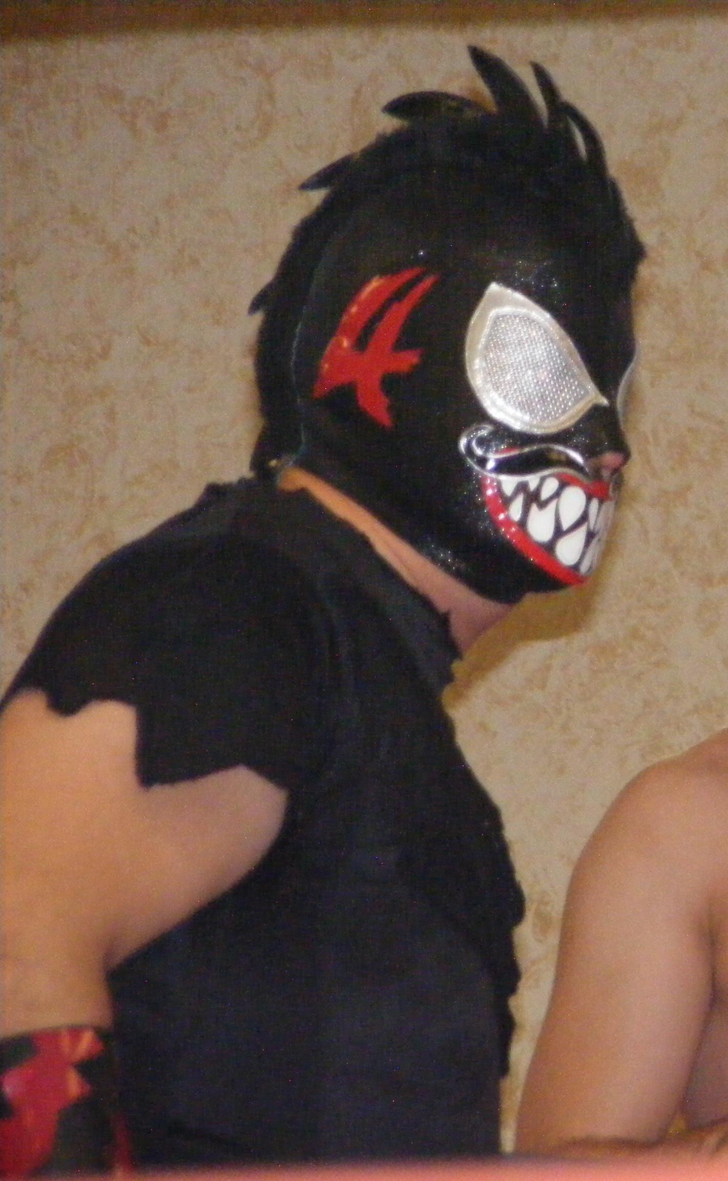 Professional wrestler STIGMA at a Chikara show